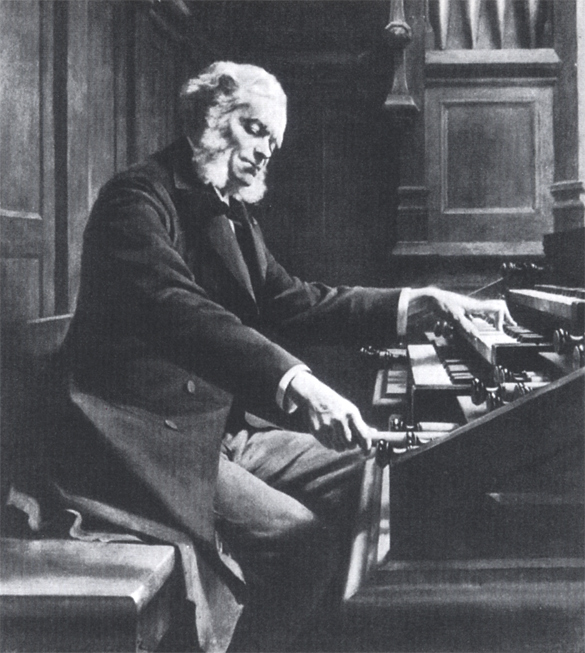 Photo of Jeanne Rongier's César Franck at the Organ